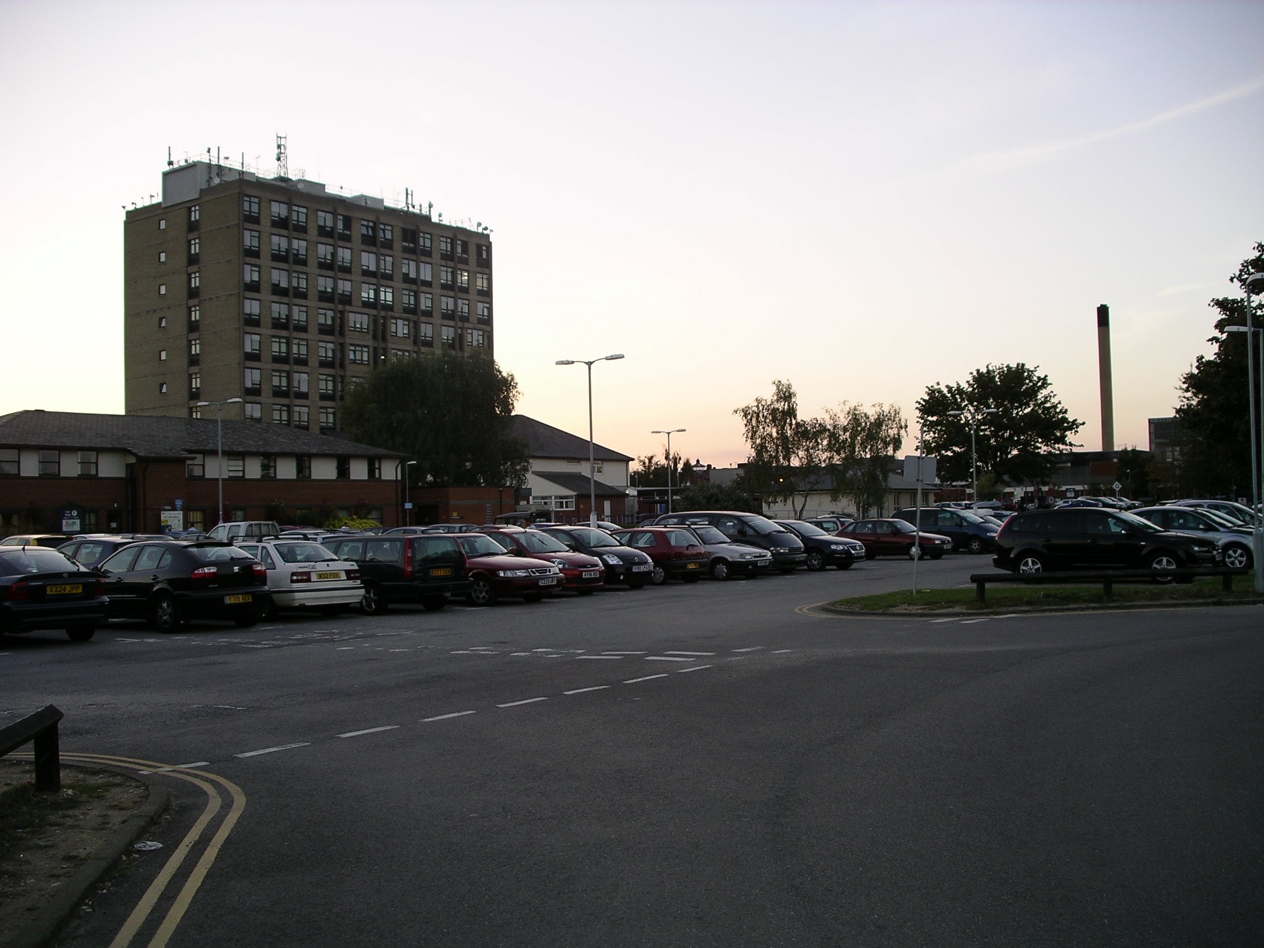 Ipswich Hospital, Heath Raod, Ipswich, Suffolk, England.